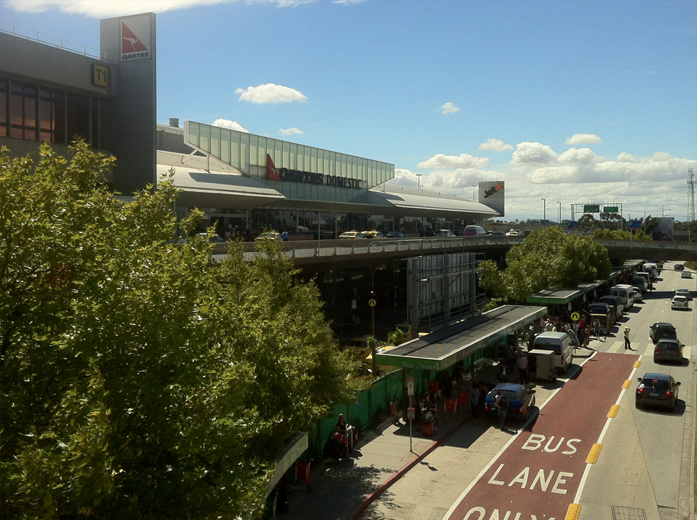 Terminal 1 at Melbourne Airport, which hosts Qantas and Jetstar domestic flights.